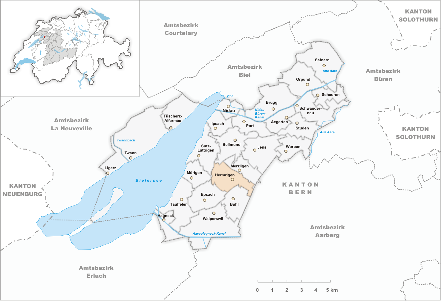 Municipality Hermrigen